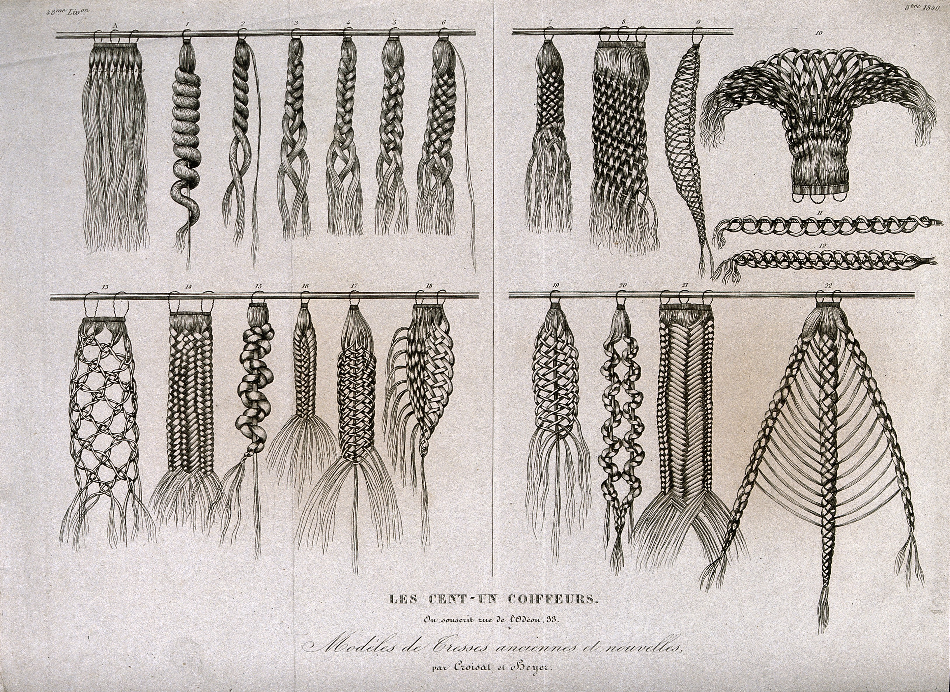 Twenty-two illustrations showing different plaited hair pieces. Iconographic Collections Keywords: Wig; Hairstyle; Fashion; Hair; Wig macker; Hairdressing